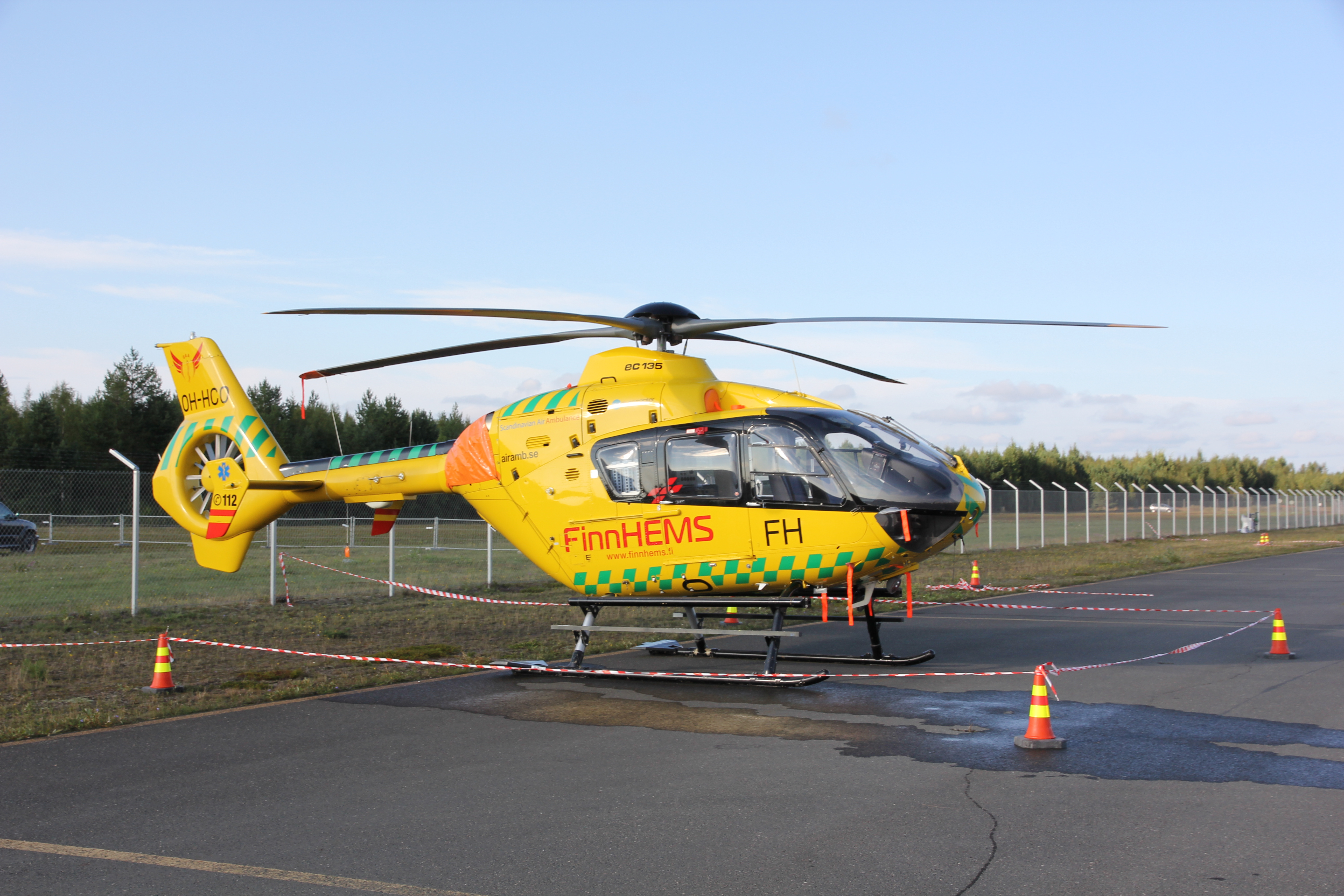 Eurocopter EC 135 P2 air ambulance helicopter on ground display at Oulu Airport at Tour de Sky 2014 air show.